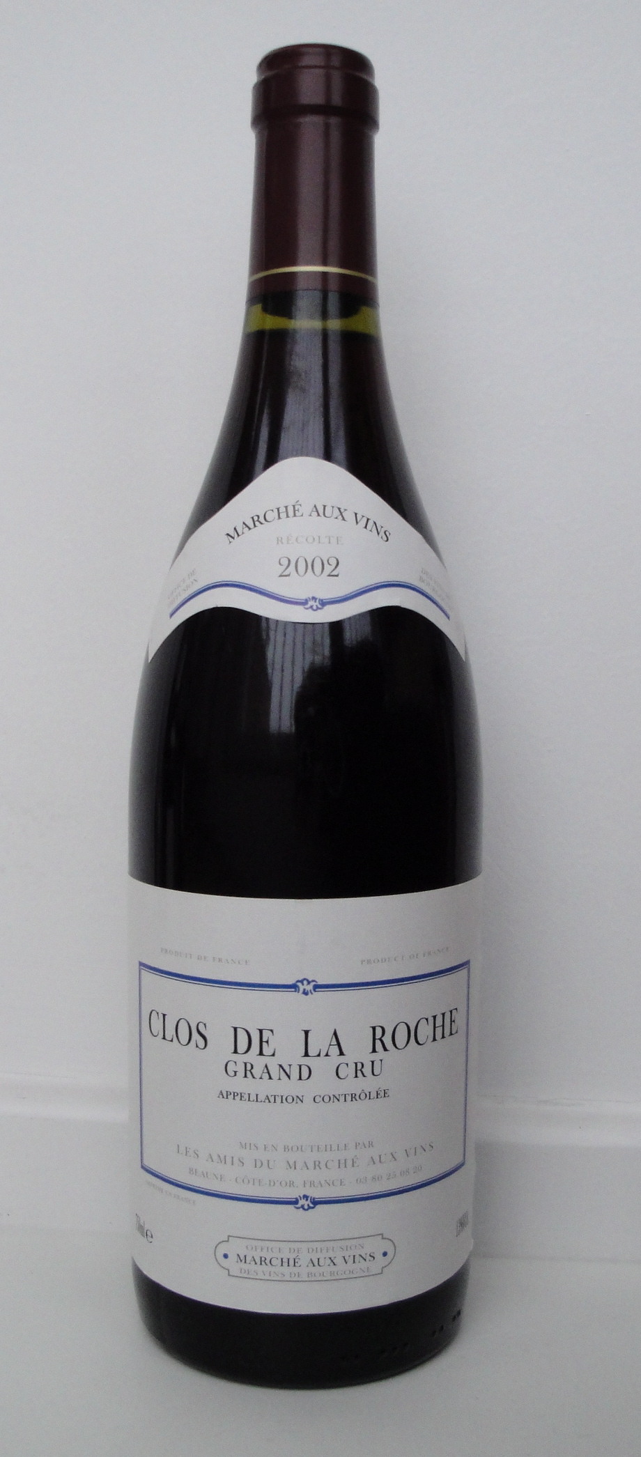 A bottle of Clos de la Roche 2002, a Burgundy Grand Cru